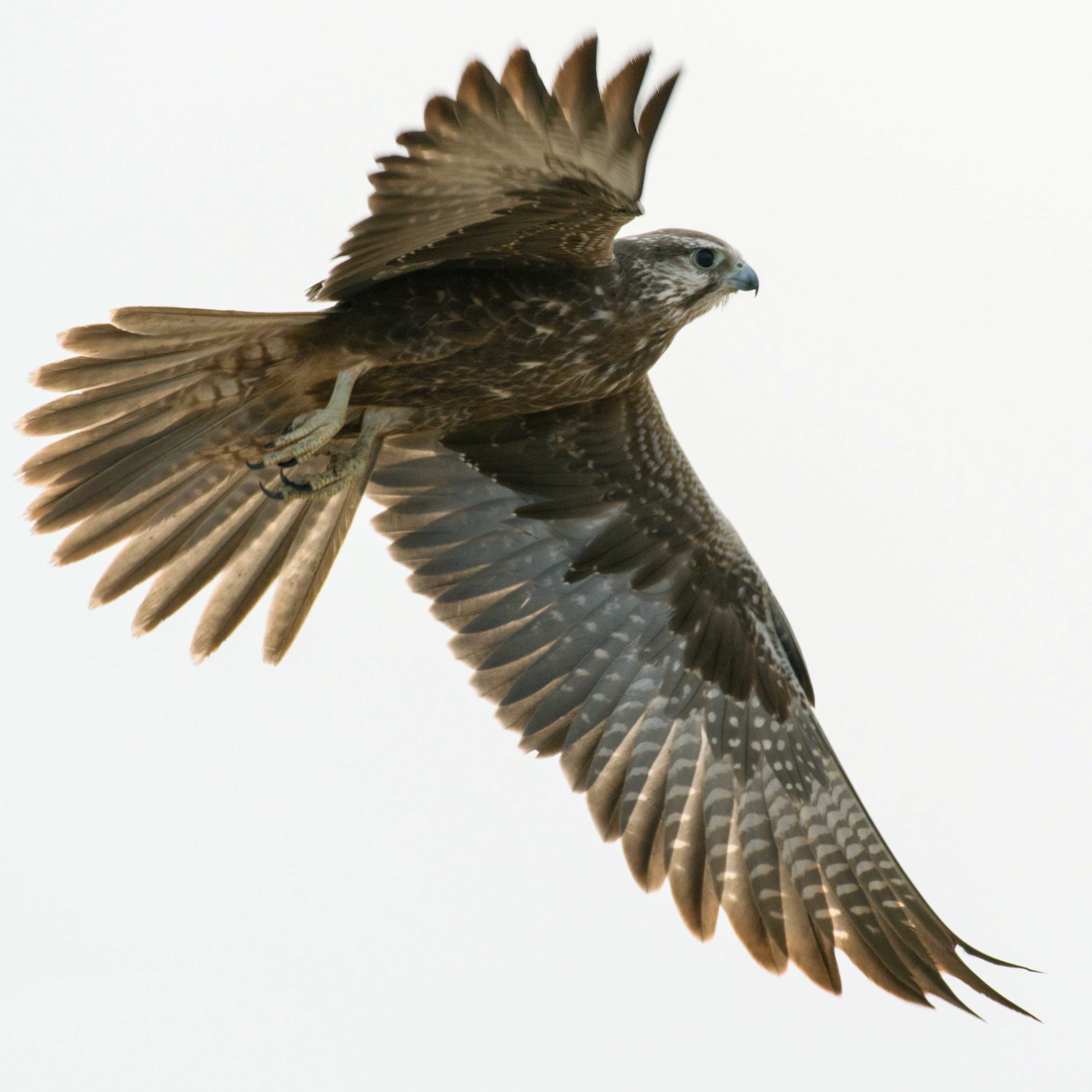 Juvenile Laggars Falco jugger are brown birds overall, very similar to juveniles of Saker Falcon Falco cherrug cherrug. Markings on underparts vary from dark chocolaty brown to sparse brown blotches.